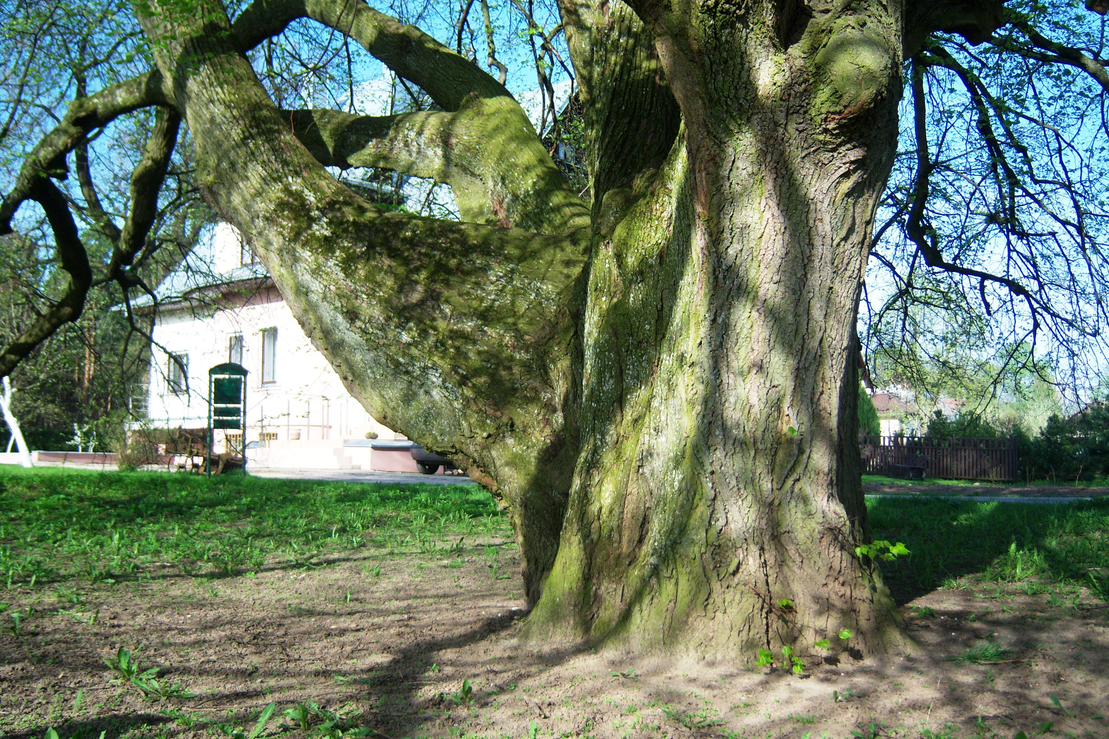 Small-leaved lime (tilia cordata) in Lampėdžiai, Kaunas, Lithuania